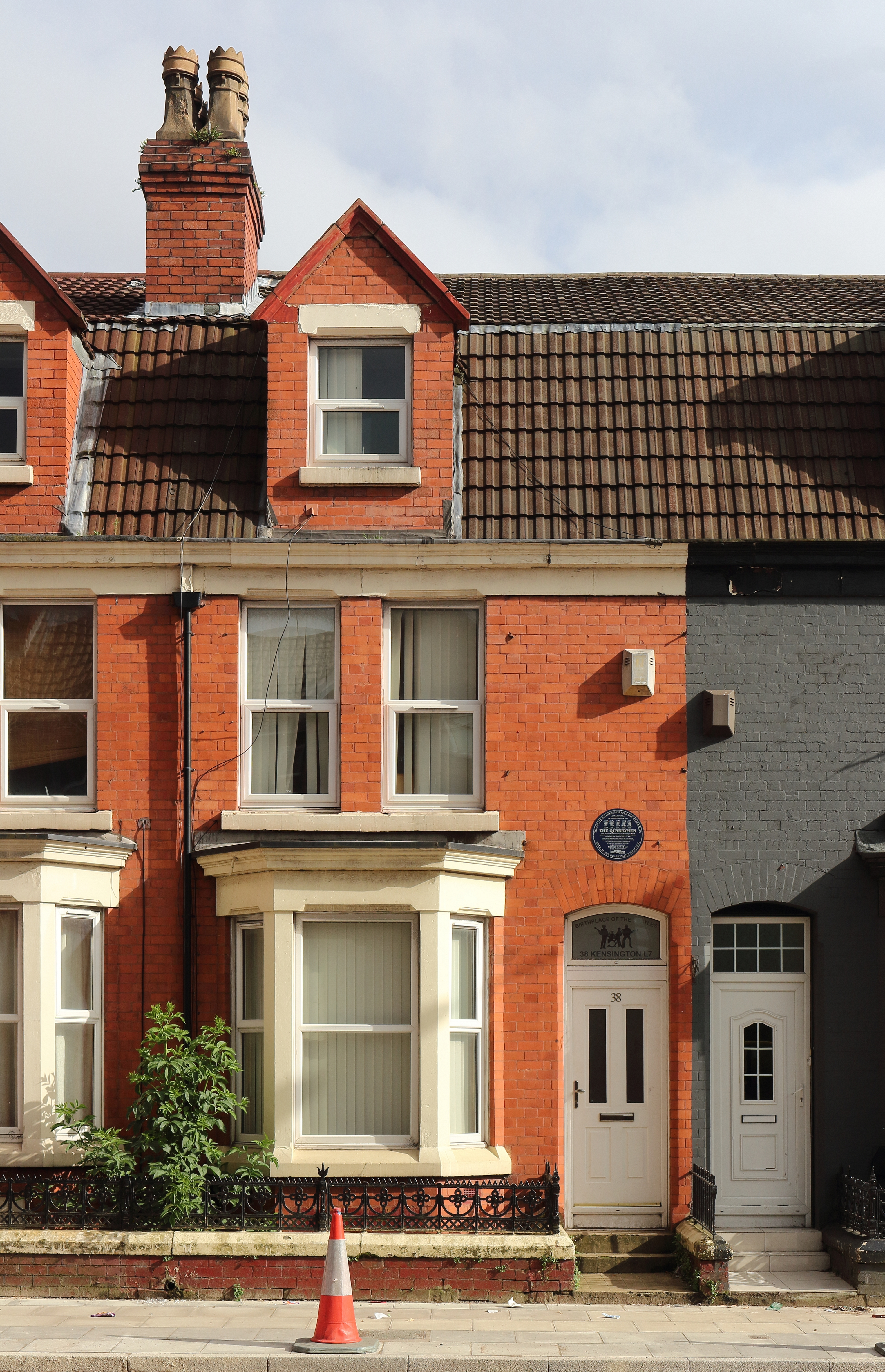 Home of Percy Phillips, where The Quarrymen recorded a demo before morphing into The Beatles. View from the opposite pavement on Kensington.